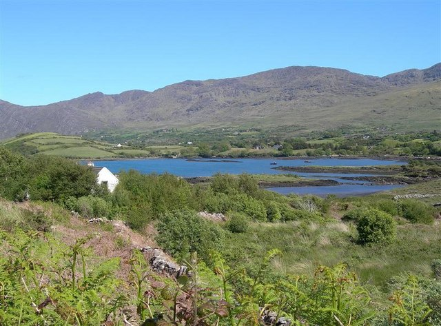 Towards Ardgroom Bay Looking into the bay on a fine May afternoon.